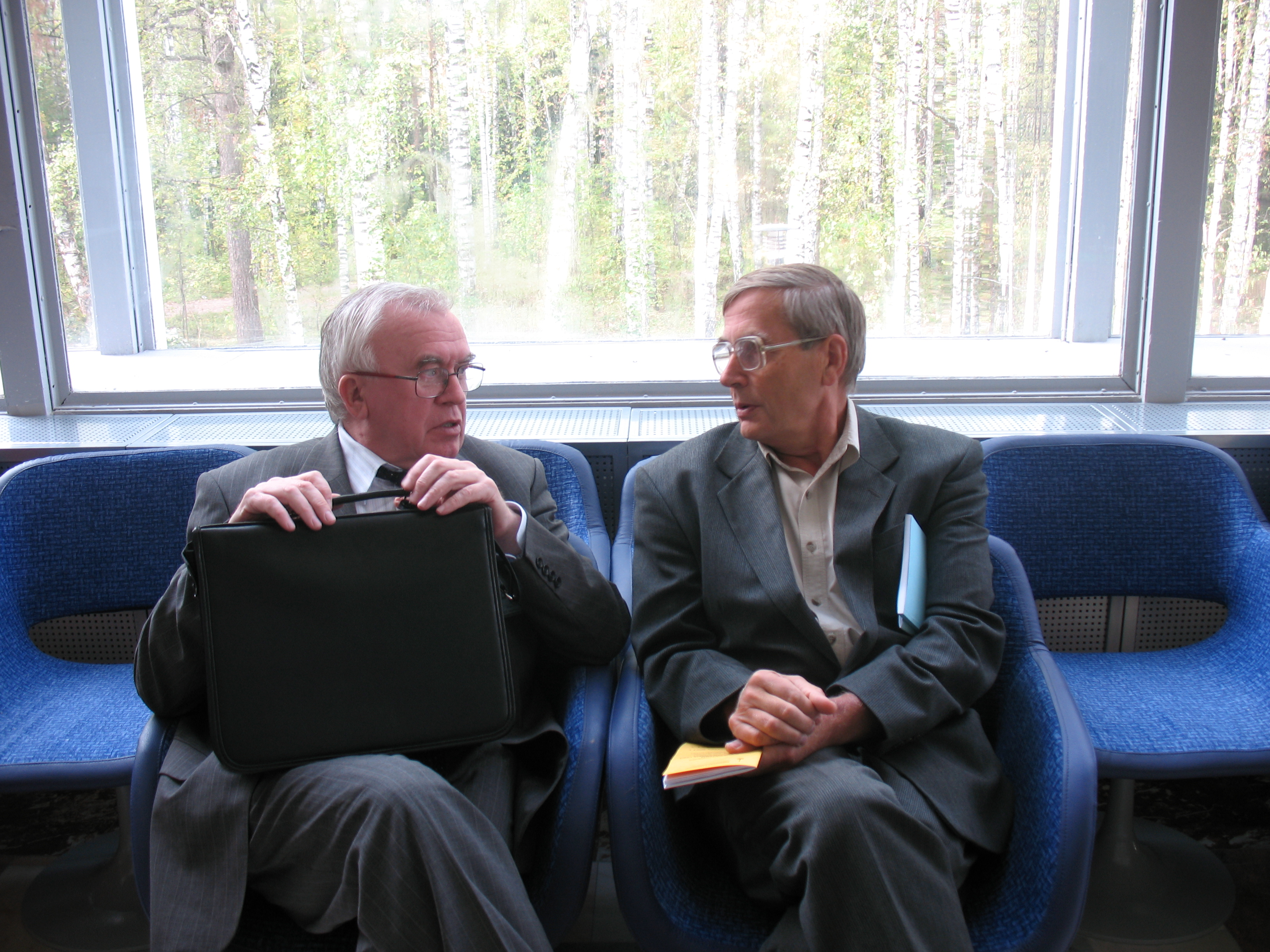 В.М. Тешуков и В.Ю. Ляпидевский